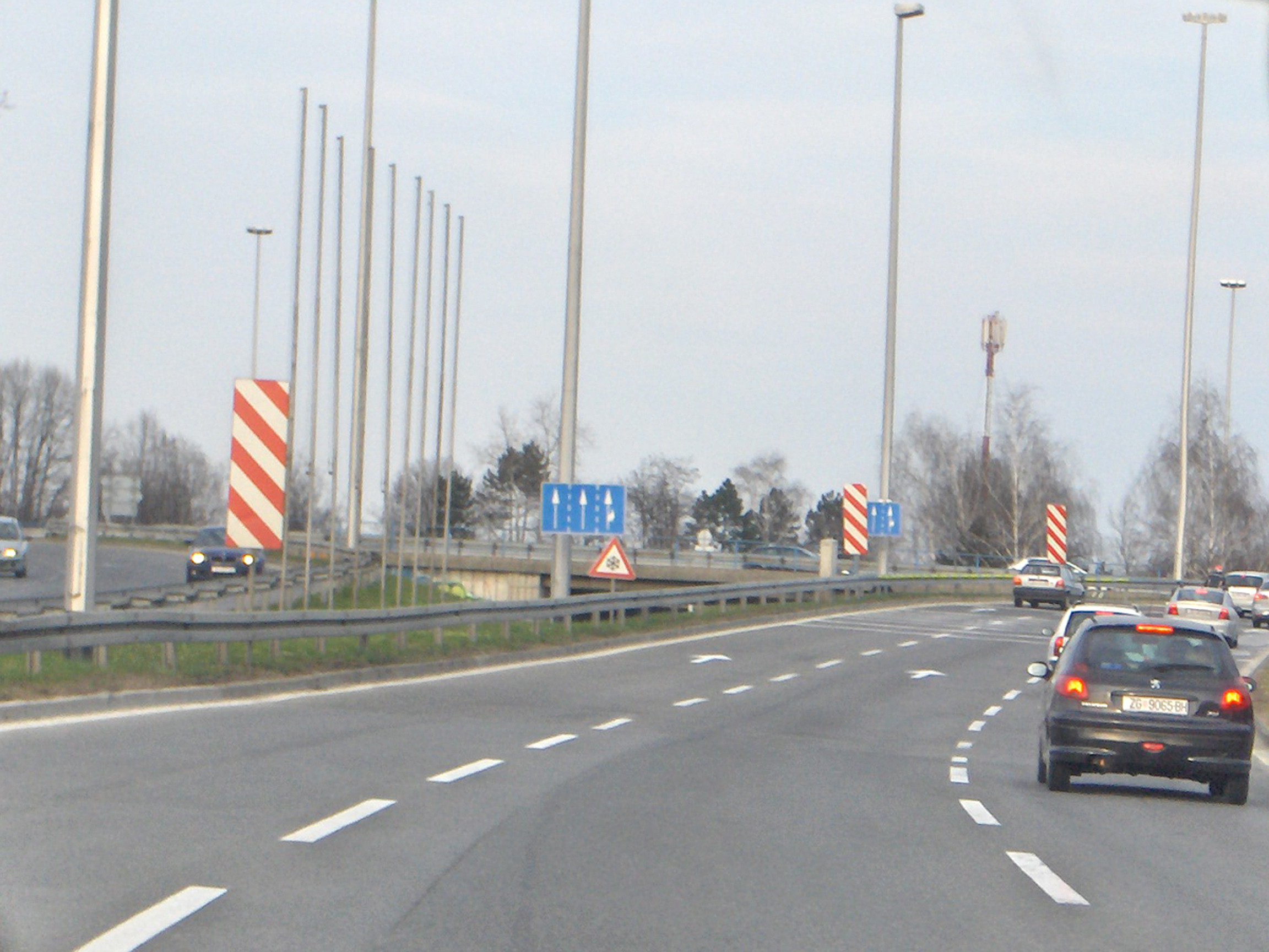 Jadranska Avenue, approaching the Remetinec Rotary in Zagreb, Croatia.